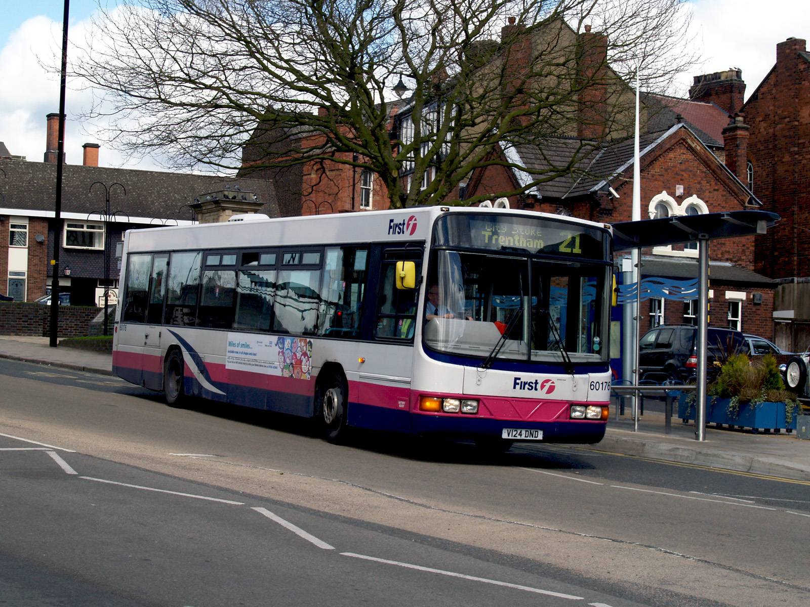 First Potteries Limited (formerly First Manchester Limited) 60176 V124 DND, a Scania L94UB built 2000 with a Wright ‘Axcess-Floline’ B42F body on Waterloo Road, Burslem with the 12:55 Bradeley (school) to Trentham (Pacific Road) via Hanley 21 service. Saturday 4th April 2009